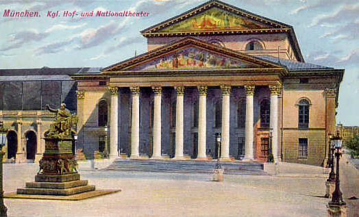 München, Germany: Nationaltheater, Max-Joseph-Platz. Detail from a postcard around 1900.